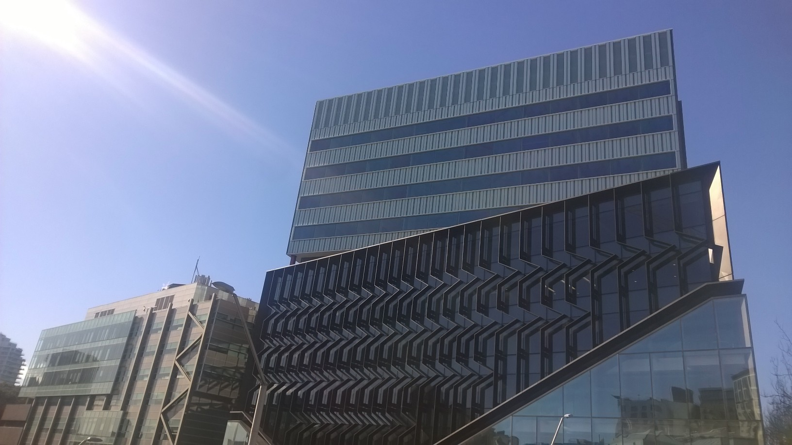 Building 302 of the Science Centre in the City Campus, which houses the School of Chemical Sciences, School of Environment, School of Psychology, Institute of Marine Science and the Faculty of Science administration offices.